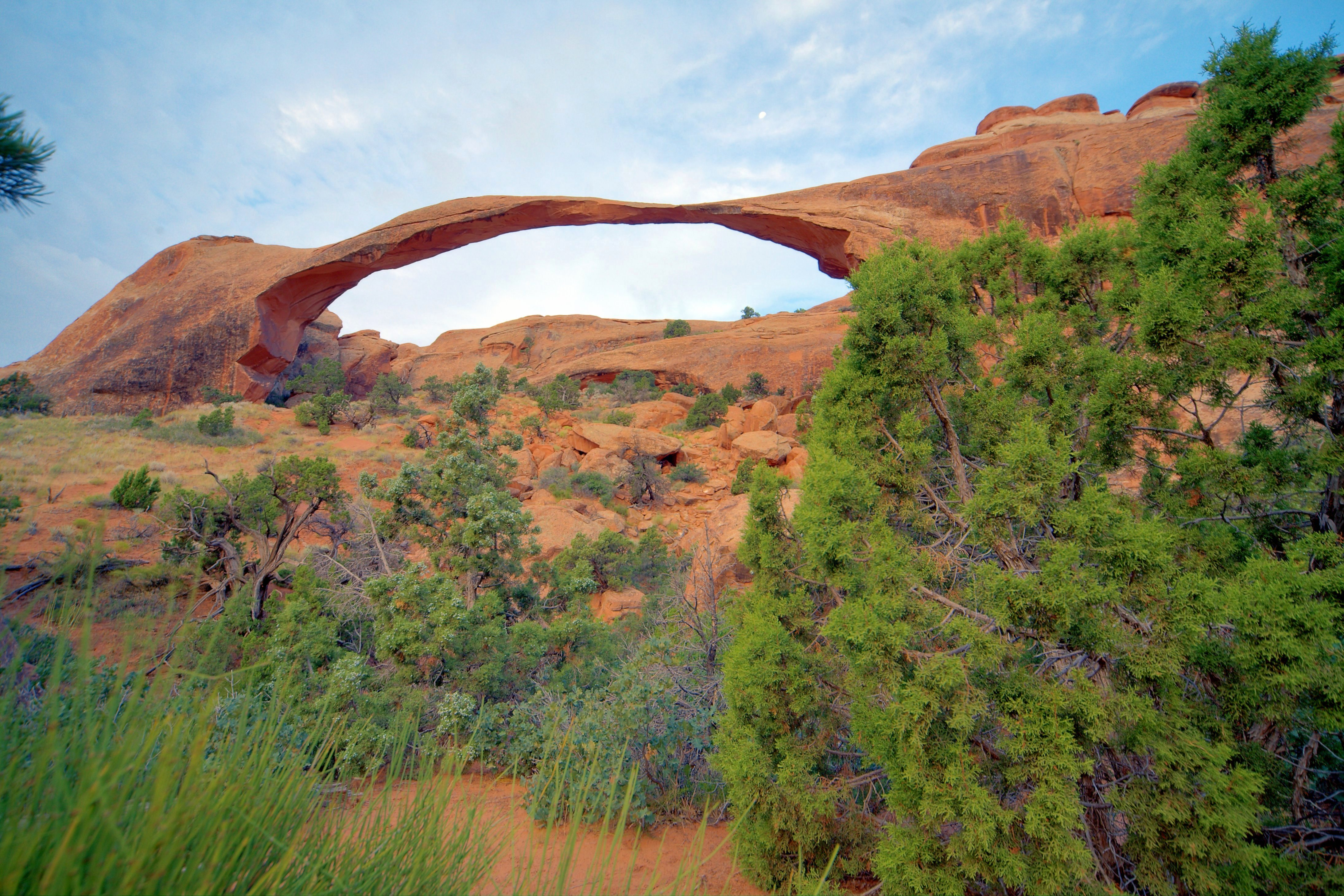 Landscape Arch in Arches Nationalpark. DRI from three images.